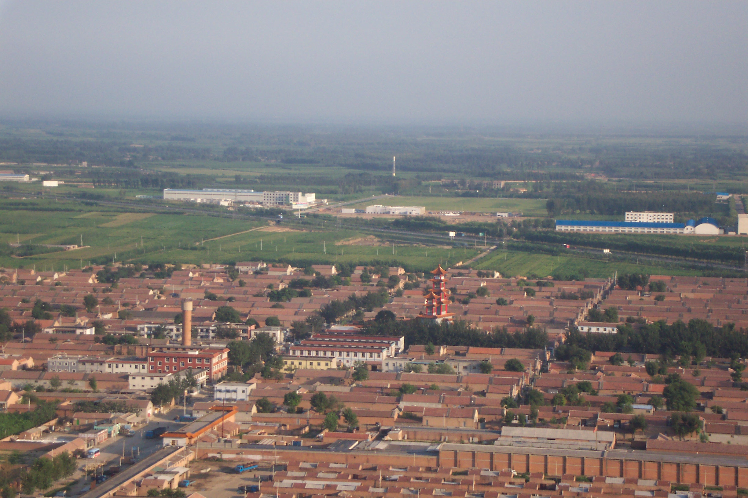 Hot-air balloon ride at Langfang Economic Development Zone near the Beijing Tianjin expressway in China overlooking a farming village. Photo taken 2003/08/10.